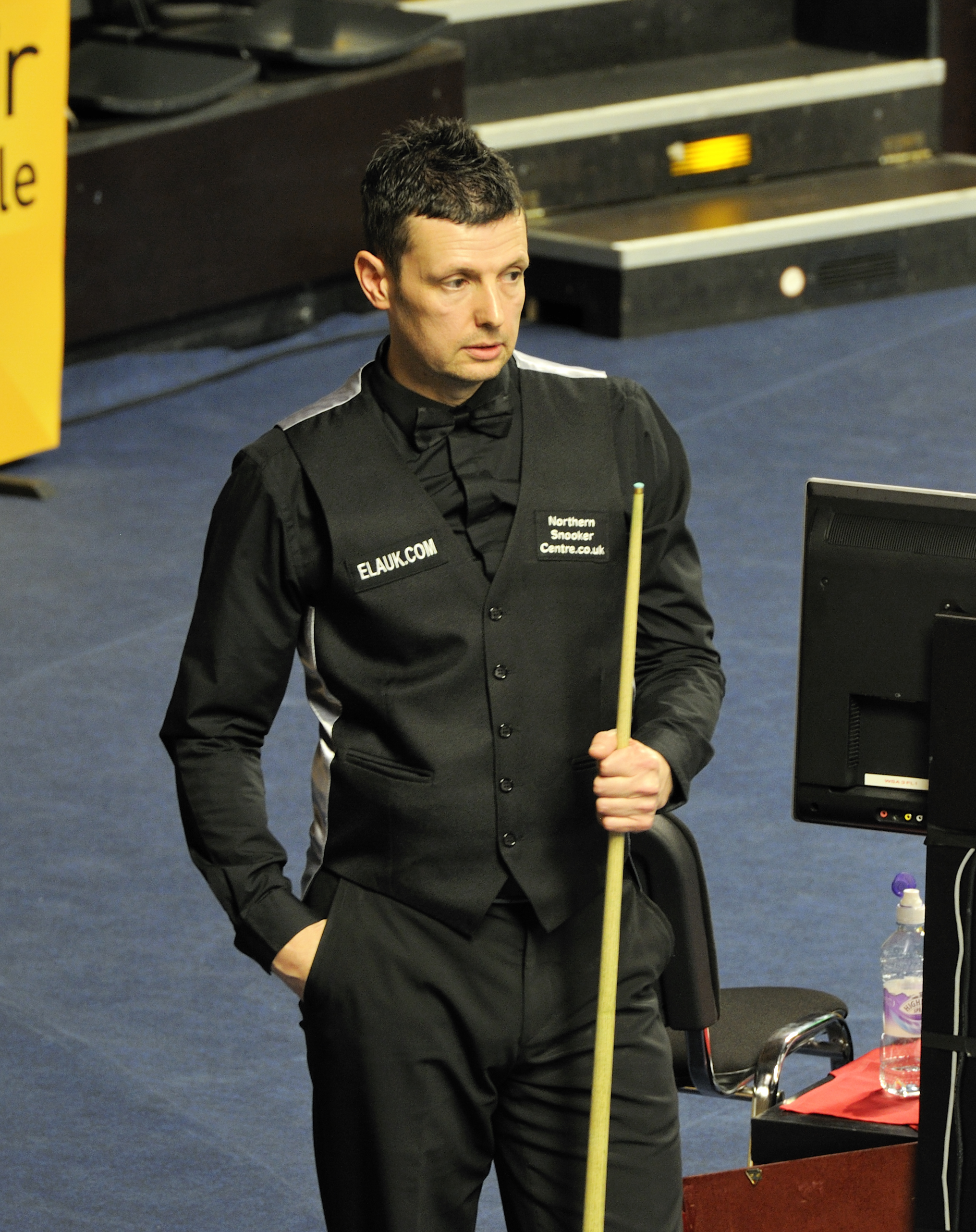 Picture taken in Berlin during the Snooker German Masters in 2013. Peter Lines.